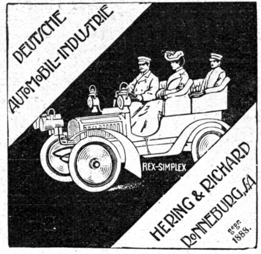 Advertisement (Detail)